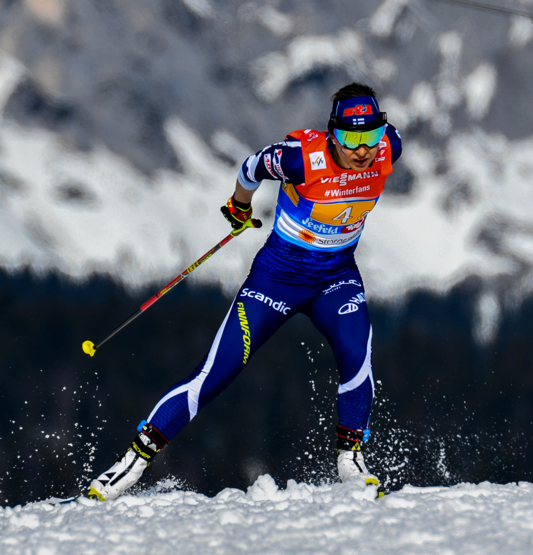 FIS Nordic Wolrd Ski Championships Seefeld 2019 - Ladies 4x5km Relay Classic/Free. Picture shows Riitta-Liisa Roponen (FIN).